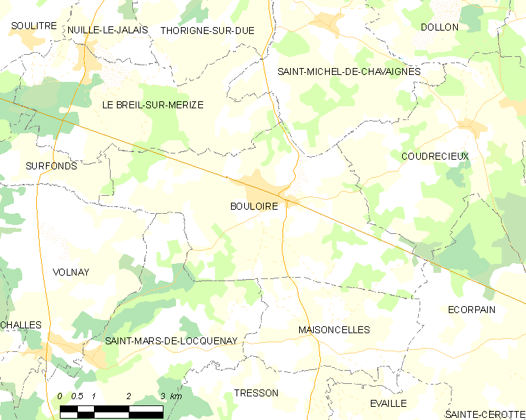 Map of French municipality